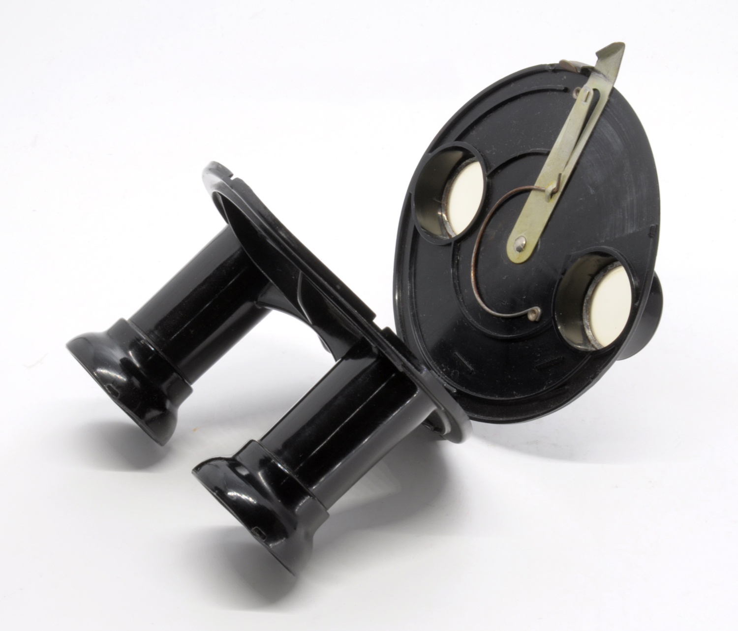 View-Master Model A exploded.